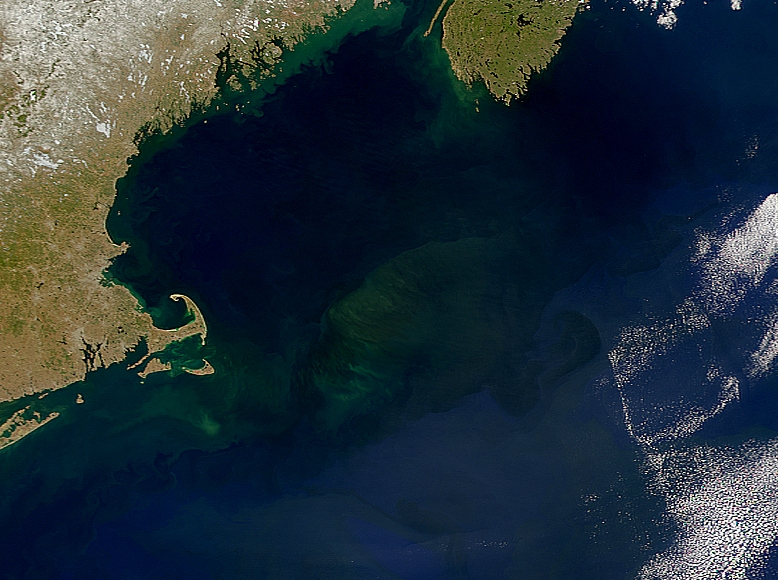 A visible color satellite image centered on Georges Bank in the northwest Atlantic Ocean. Cape Cod's characteristic shape is on the left, and southern Nova Scotia is visible on the upper right.